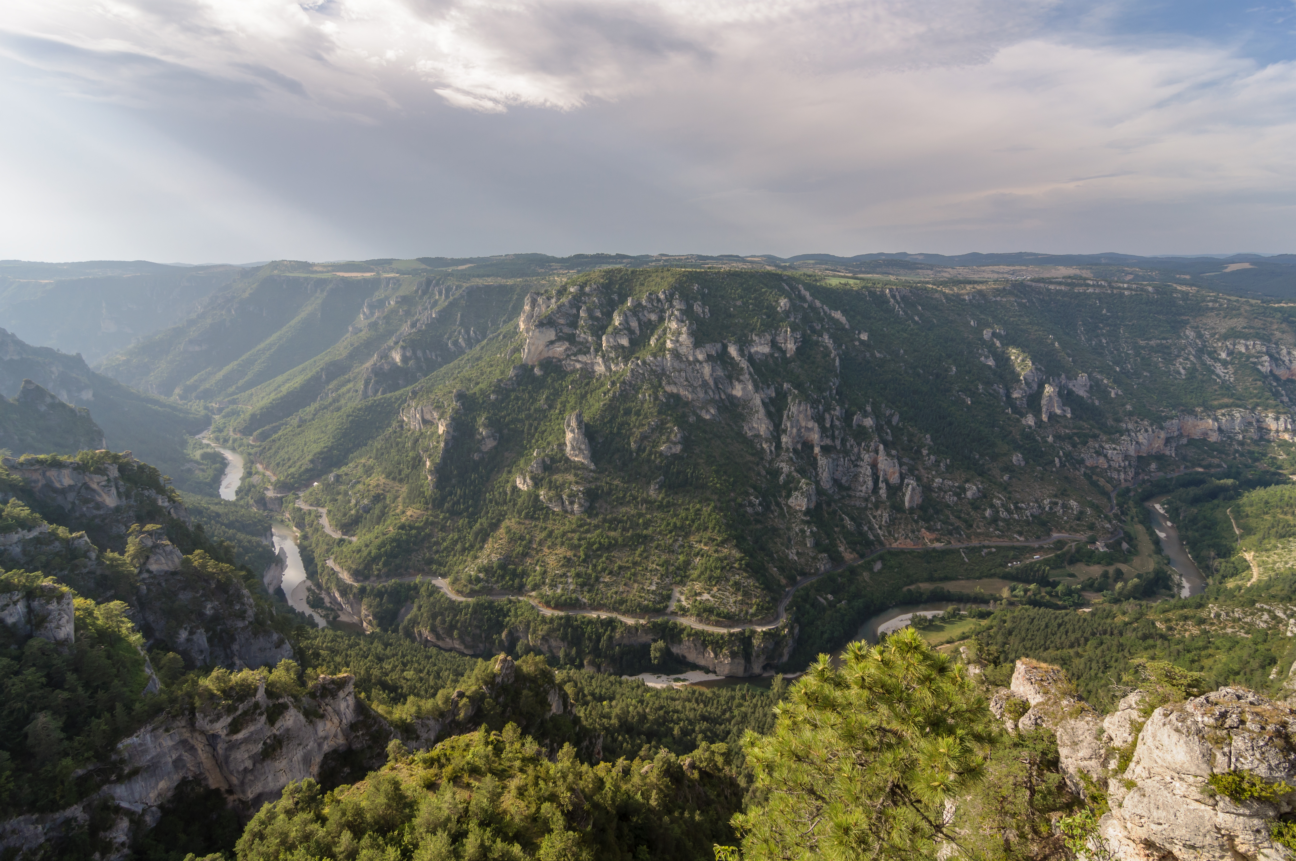 The Gorges du Tarn in their narrowest part, called les Détroits (the Straits), as seen from the Roc des Hourtous (Lozère, France)